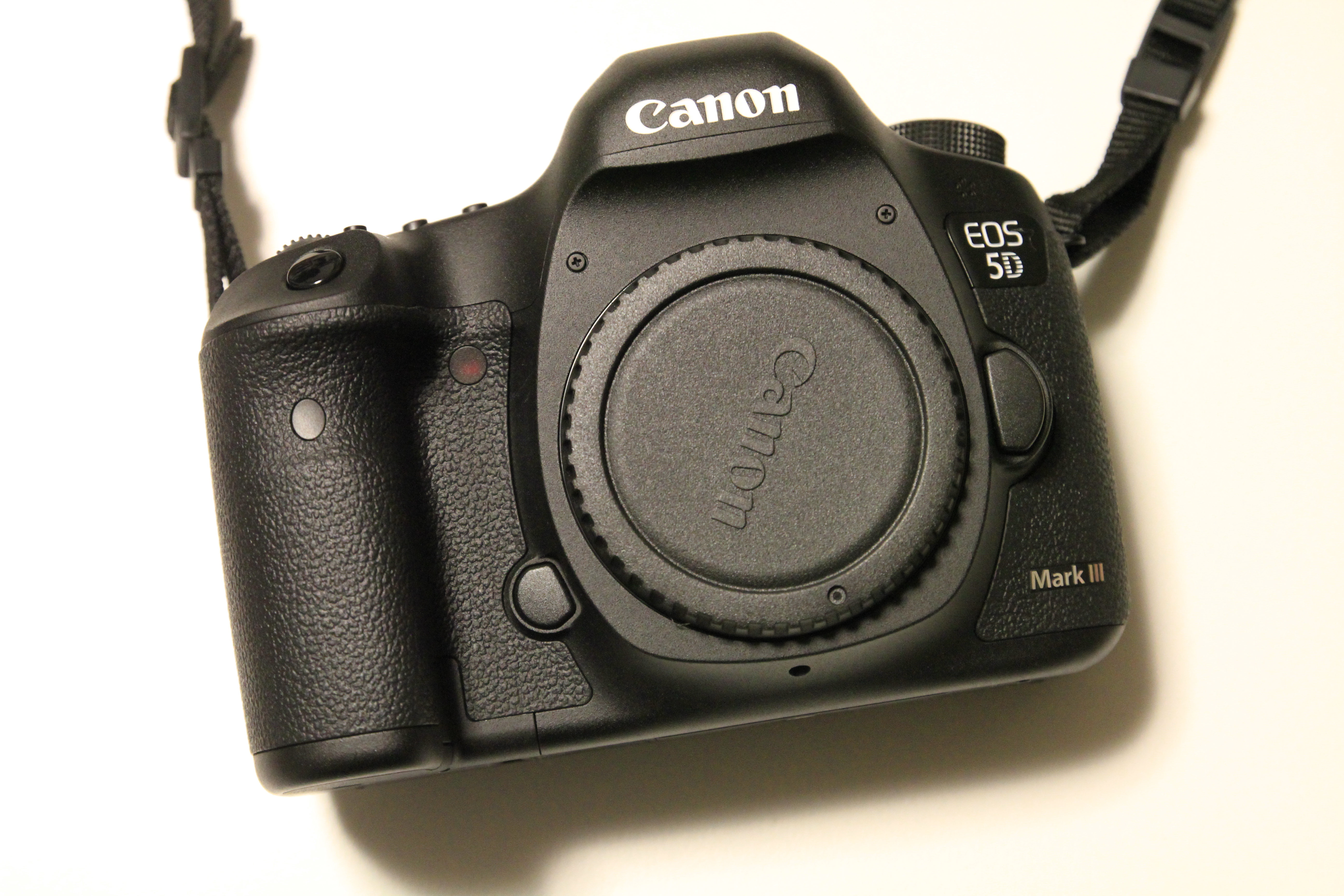 Canon EOS 5D Mark III, front view with cap